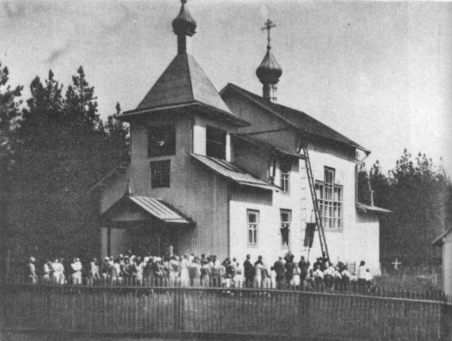 Kangaspelto orthodox church before Winterwar.